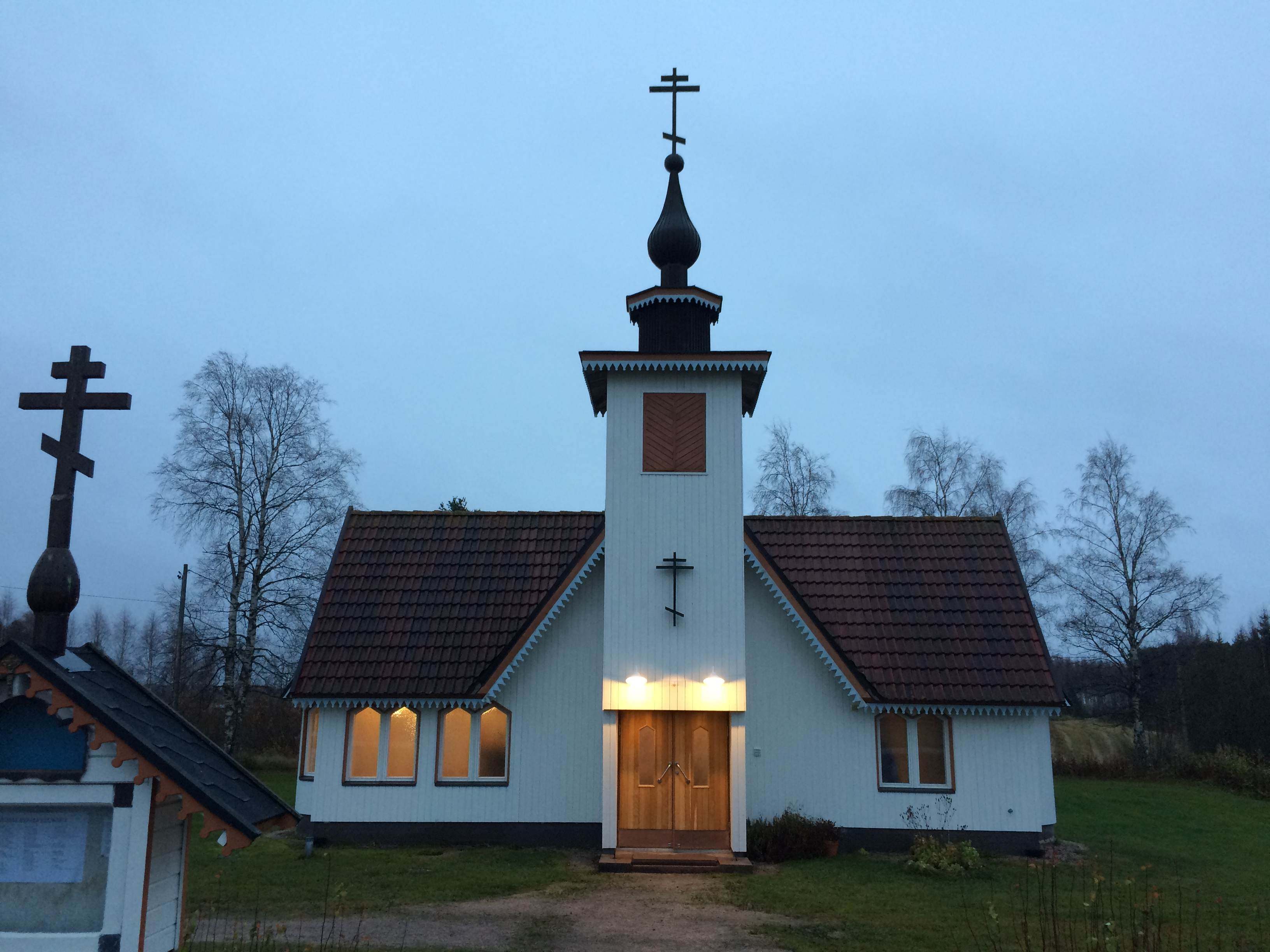 Orthodox Church of Transfiguration of Christ in Nivala, Finland. Build as chapel at 1961 and it was decicated to church in 2007.